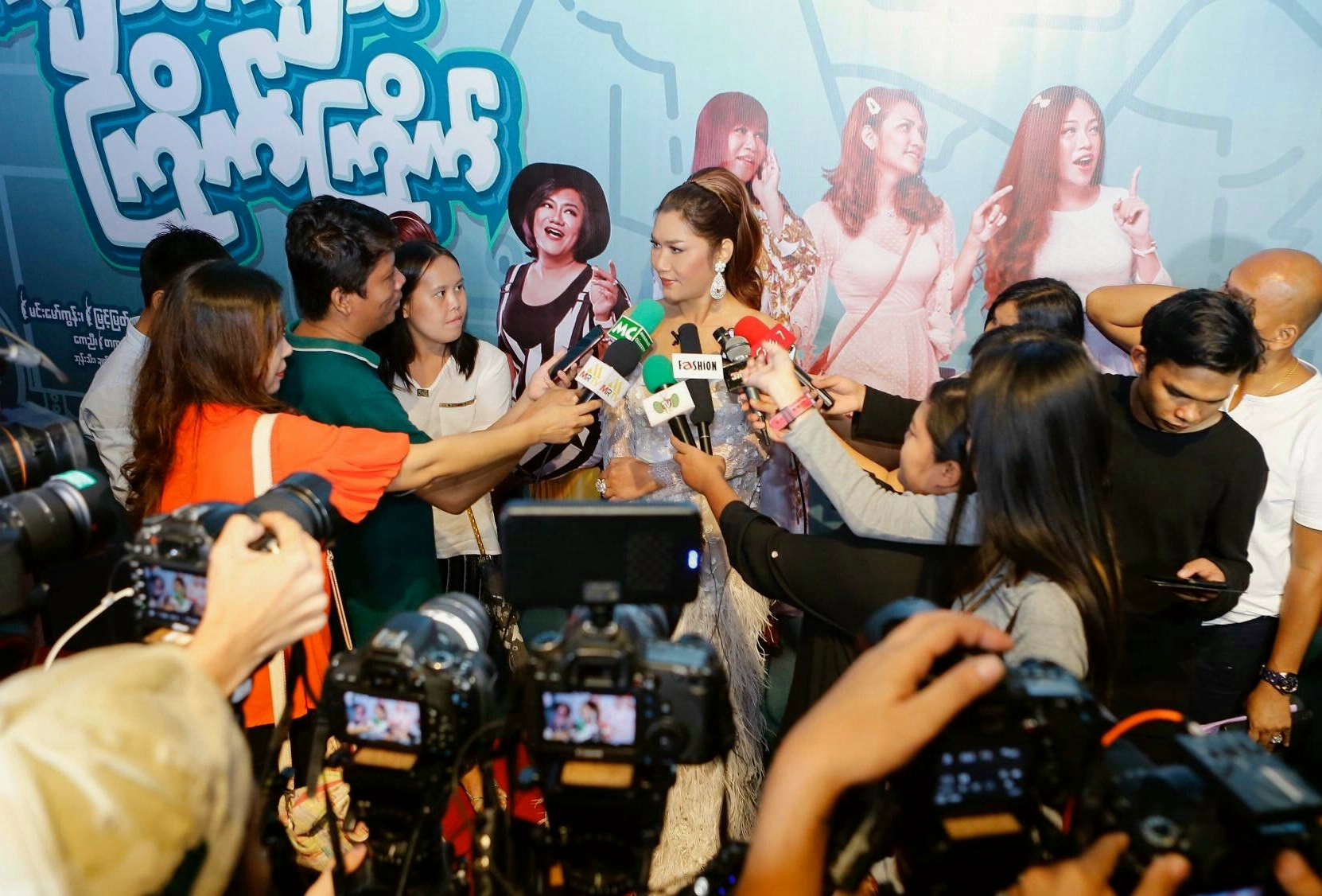 Khin San Win is a makeup artist turned actress.